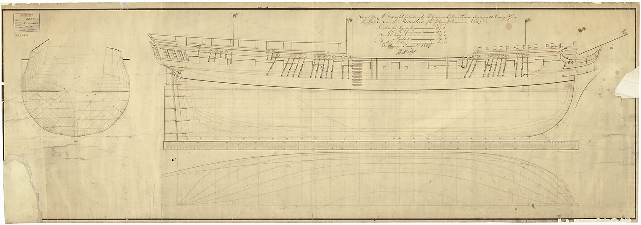 ROMULUS 1785 lines